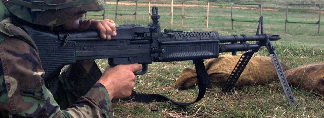 US Air Force Airman Scott Paneton, US Air Forces in Europe, armed with an M60 machine gun focuses on an enemy target during DEFENDER CHALLENGE 2000 at Lackland Air Force Base, Texas. (cropped version)